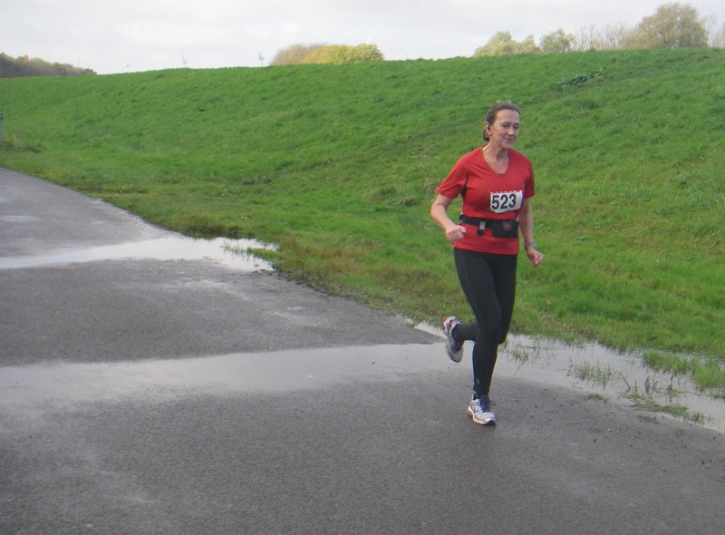 Older woman out running